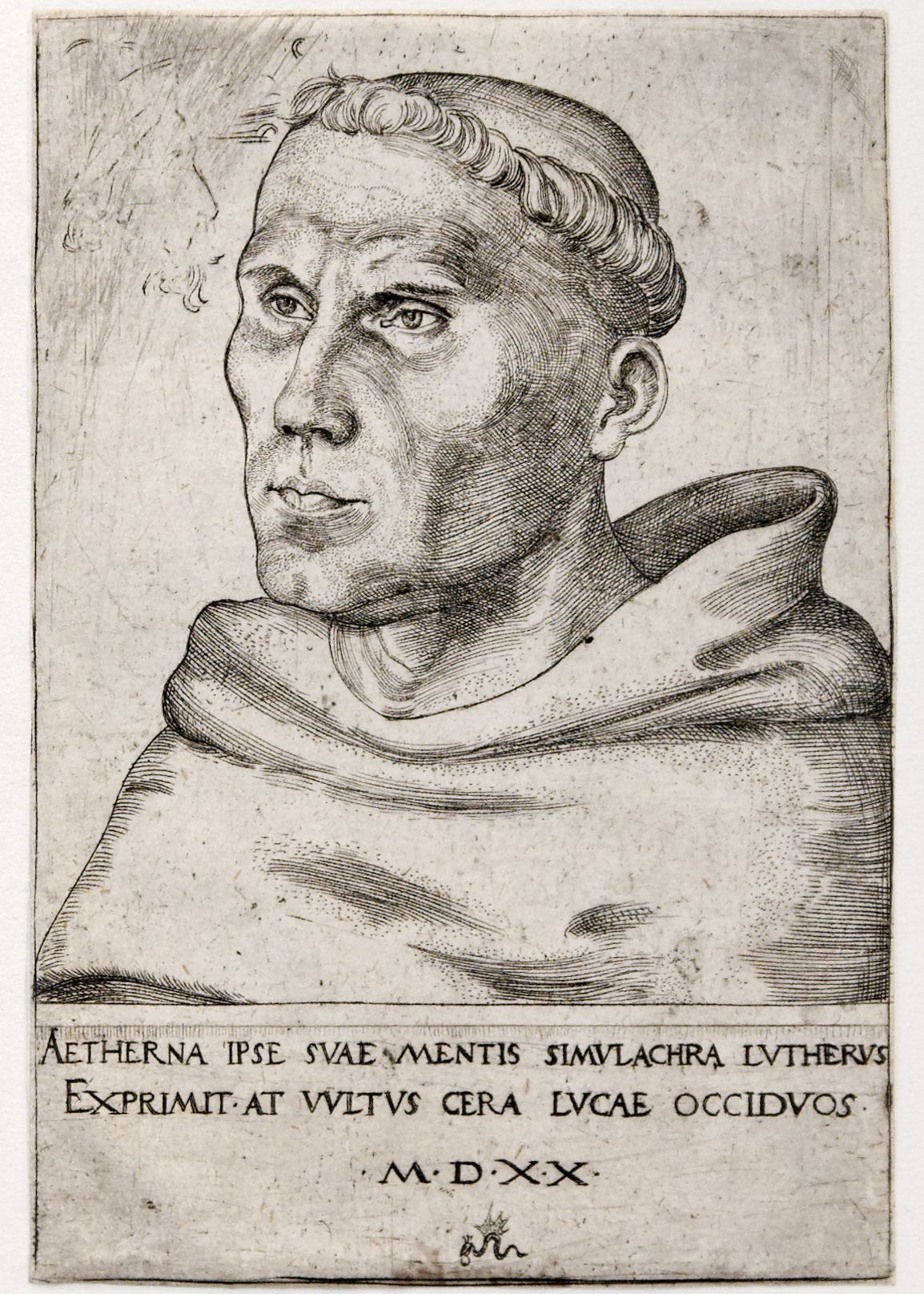 bust turned slightly to the left; with traces of a profile head in upper left corner; third state